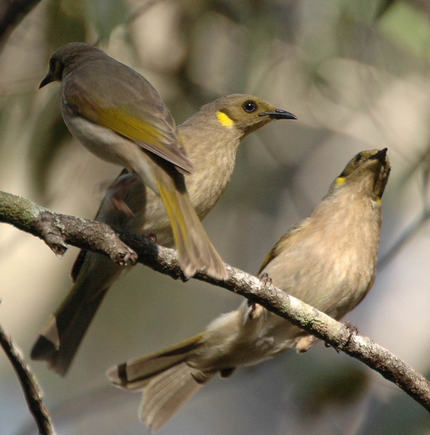 Fuscous Honeyeater (Lichenostomus fuscus) Sheepstation Crek, SE Queensland, Australia